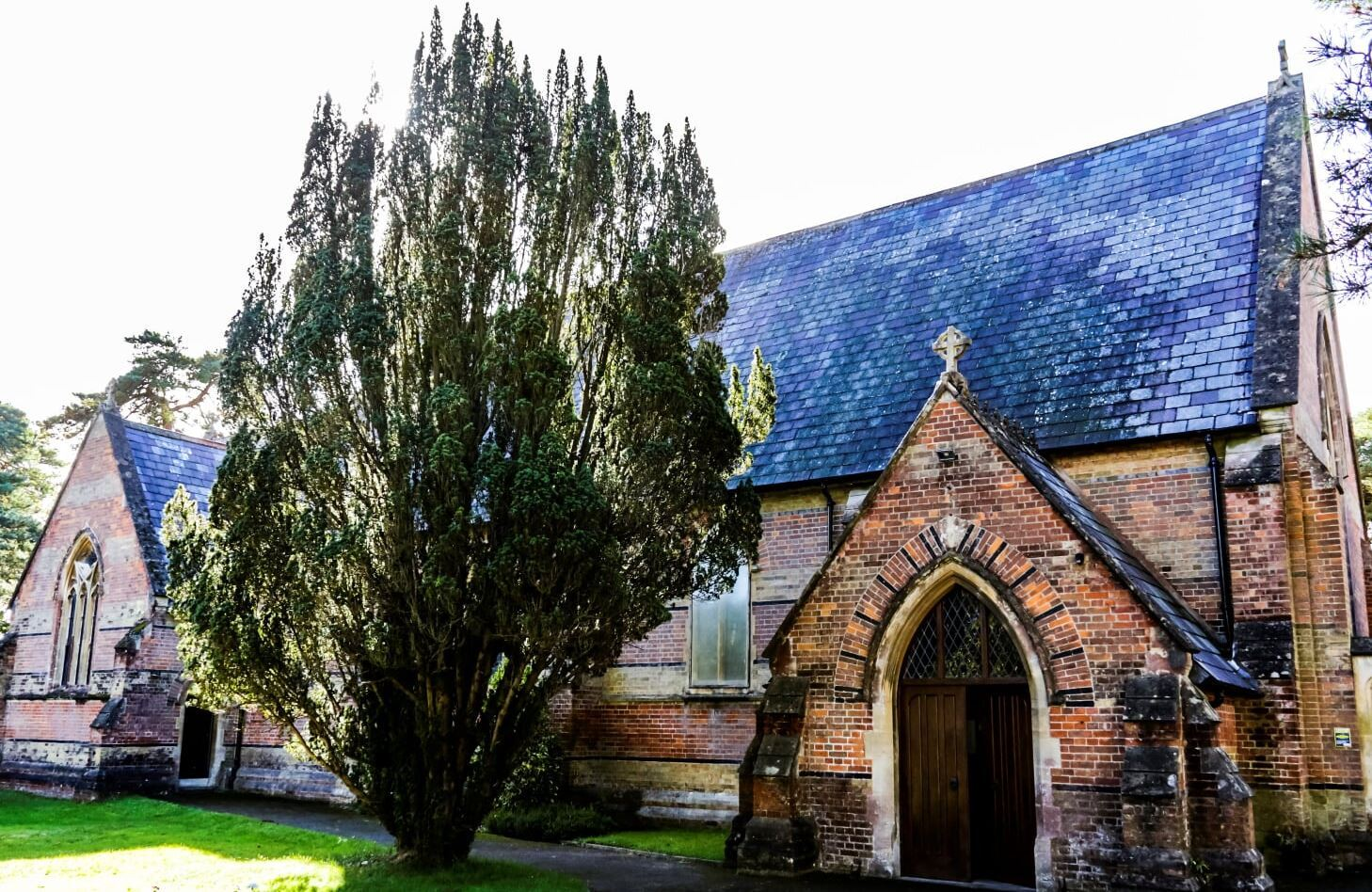 St Mark's parish church, Pennington, Hampshire, seen from the north